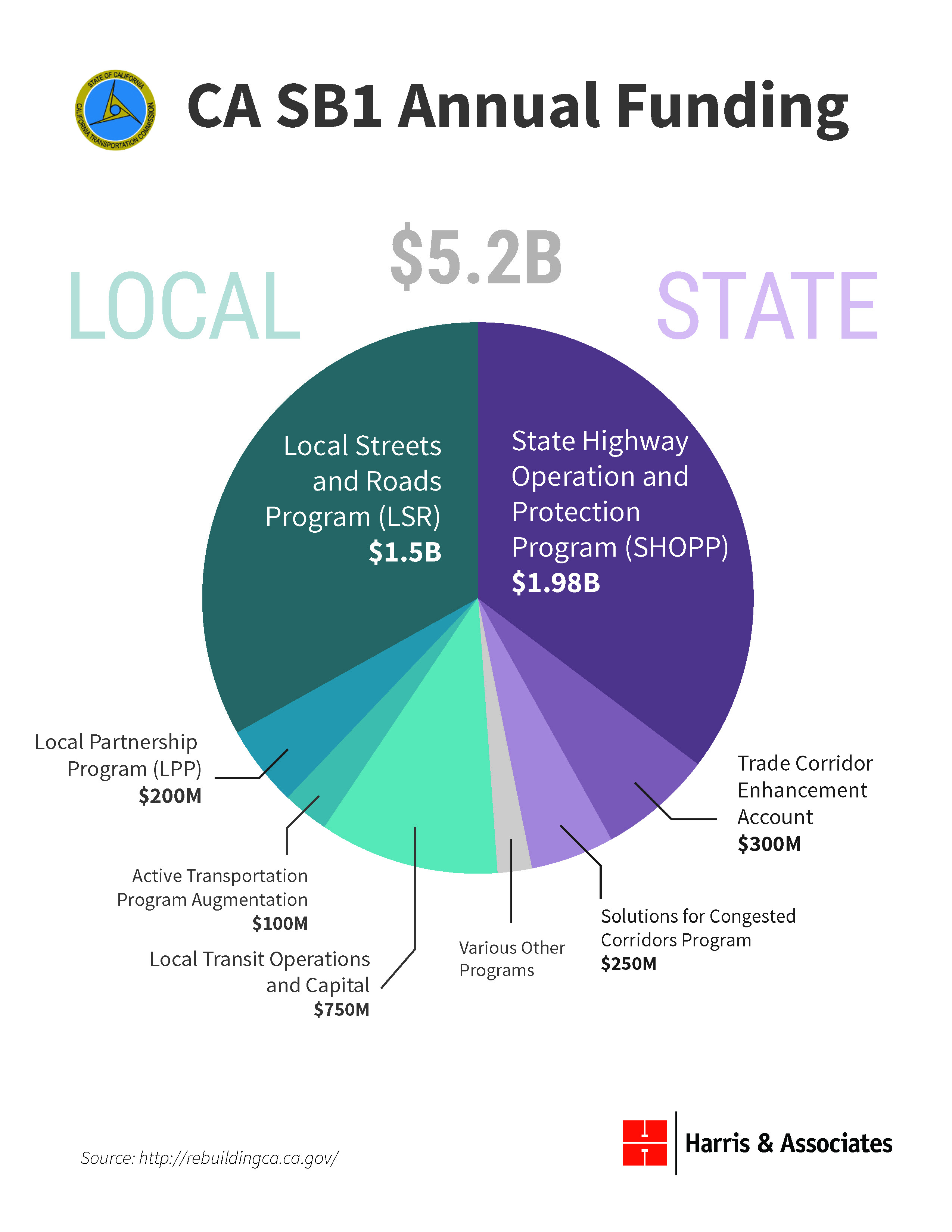 Breakdown of the Road Repair and Accountability Act of 2017 (SB1) funding on an annual basis between state and local entities.